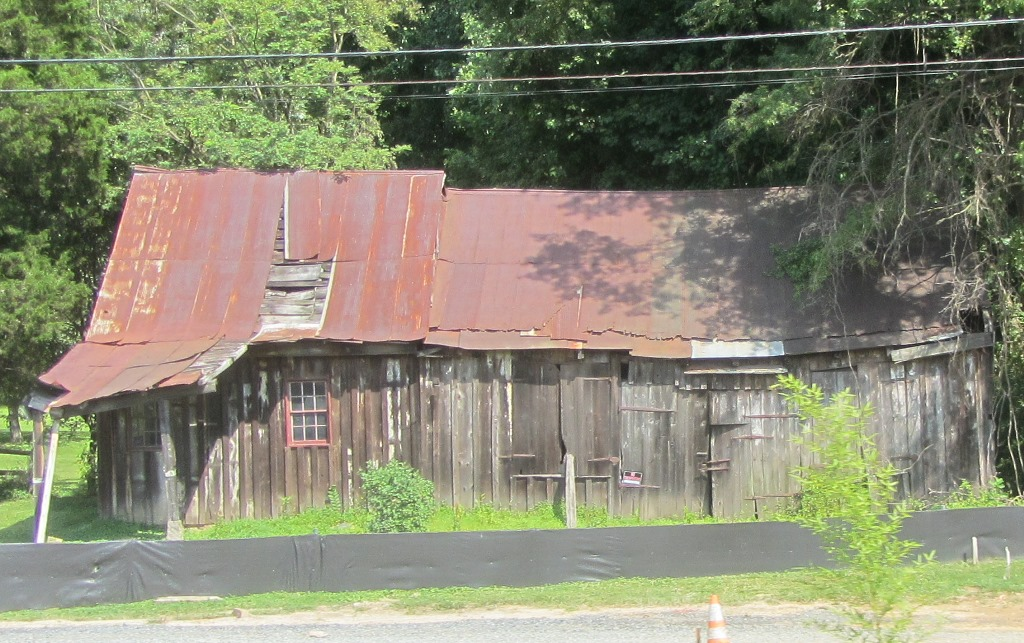 Oakland Mills Blacksmith Shop. Oakland Mills is one of the 10 villages in Columbia, Maryland